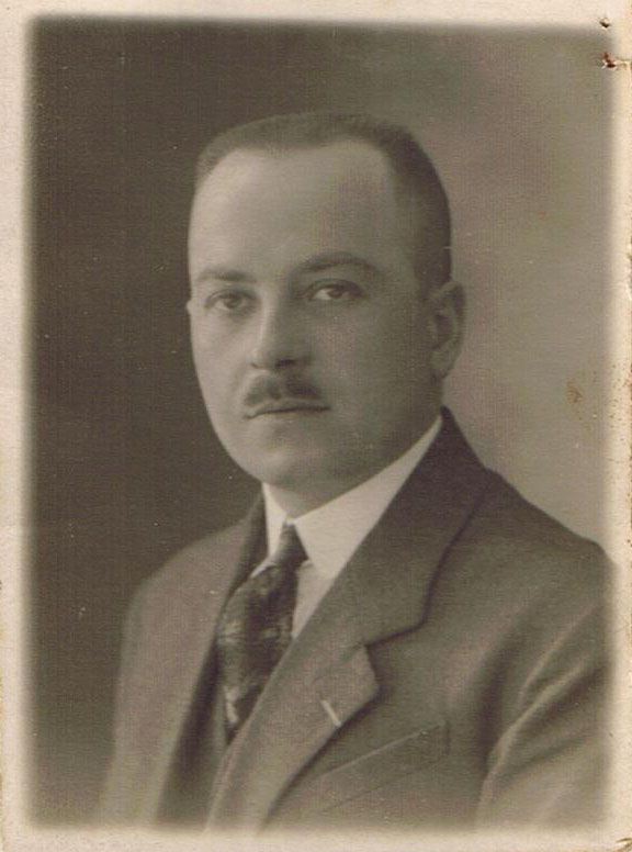 Dr. Ivan Colmant, November 14, 1892 - September 2, 1976, was a doctor of medicine and an eye surgeon. A Militia member in 1914, he spent WW1 in the Infantry. During WW2, he was part of the Belgian anti-Nazi résistance.